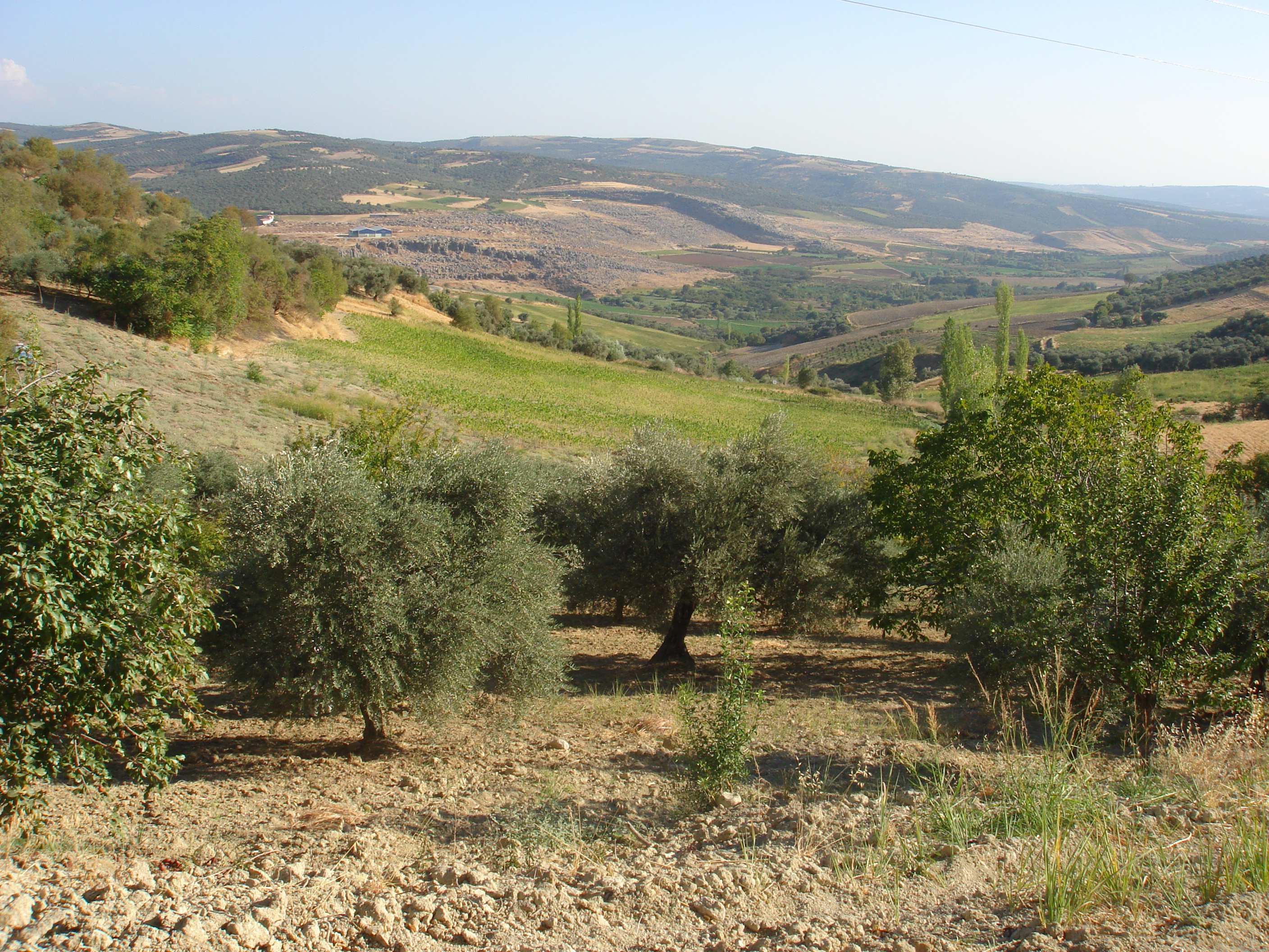 A view of the Tokaçli and olive orchards, in Altınözü. Located in Hatay Province, on the eastern :Category:|Mediterranean , extreme southeastern Turkey. Natural hillside flora is in the Eastern Mediterranean conifer-sclerophyllous-broadleaf forests ecoregion,of the Mediterranean forests, woodlands, and scrub Biome.